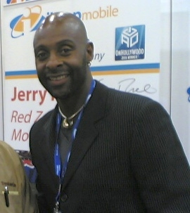 NFL legend Jerry Rice at CTIA Wireless in Las Vegas (cropped from the original photograph)